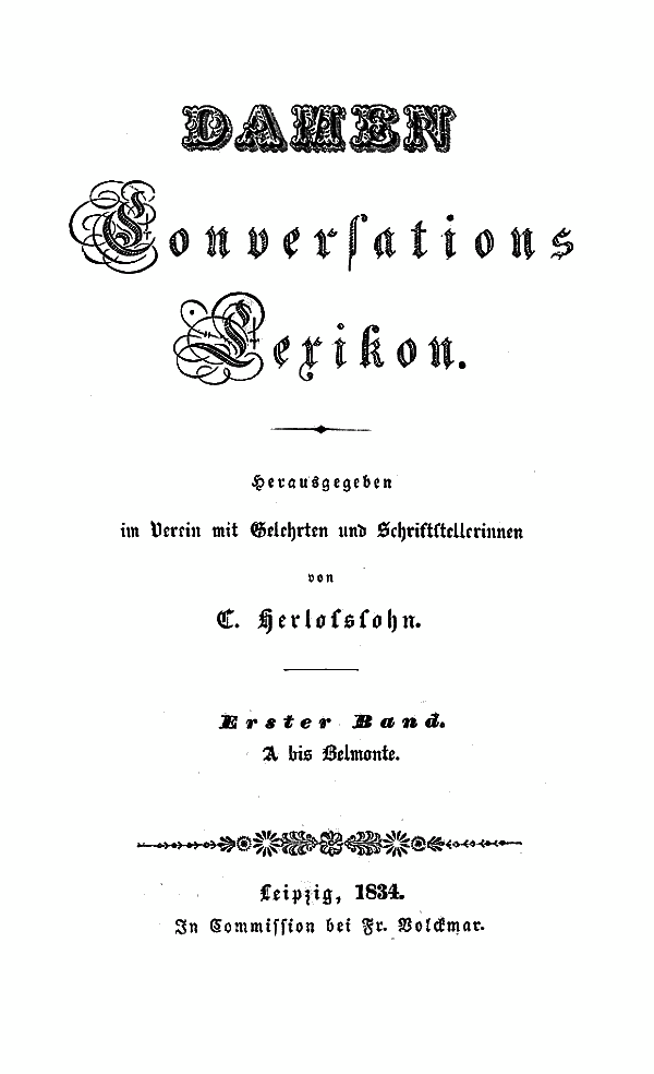 Title of Damen Conversations Lexikon, Germany